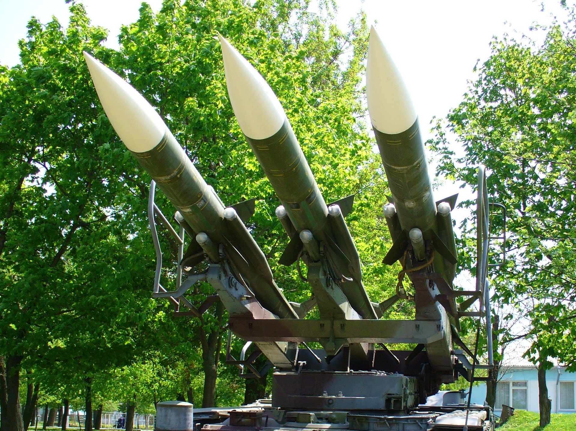 The 2K12 Kub mobile surface-to-air missile system. NATO reporting name SA-6 Gainful. Ukrainian Air Force Museum in Vinnitsa.